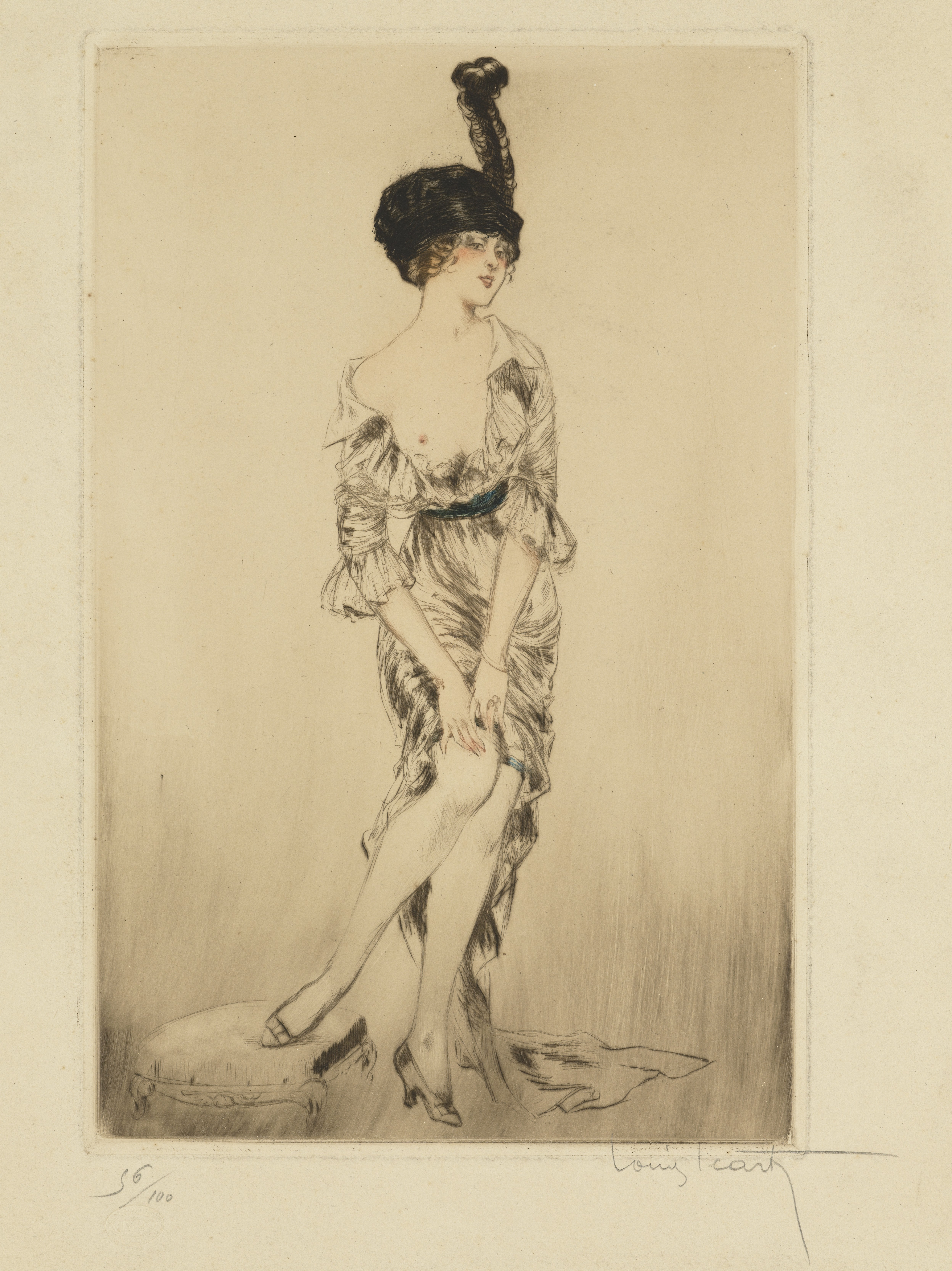 A fashionable young woman, exposing her breast and lifting her dress to take off a stocking. Iconographic Collections Keywords: Flapper; Louis. Icart